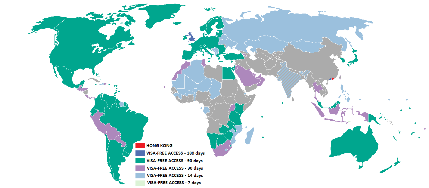 Visa policy of Hong Kong Hong Kong Visa-free - 180 days Visa-free - 90 days Visa-free - 30 days Visa-free - 14 days (India with online pre-registration) Visa-free - 7 days Visa required in Advance